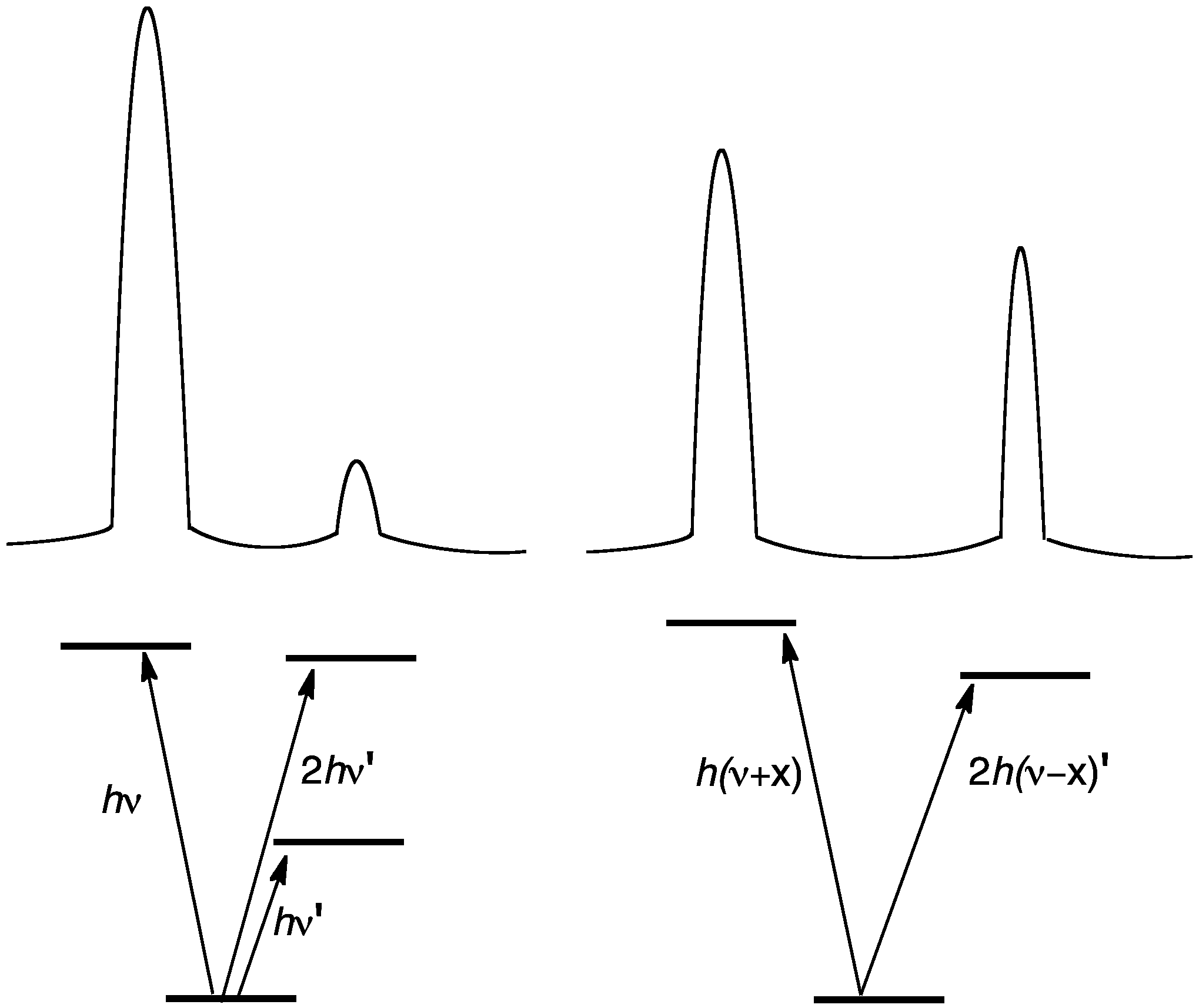 attempt to show how Fermi Resonance works